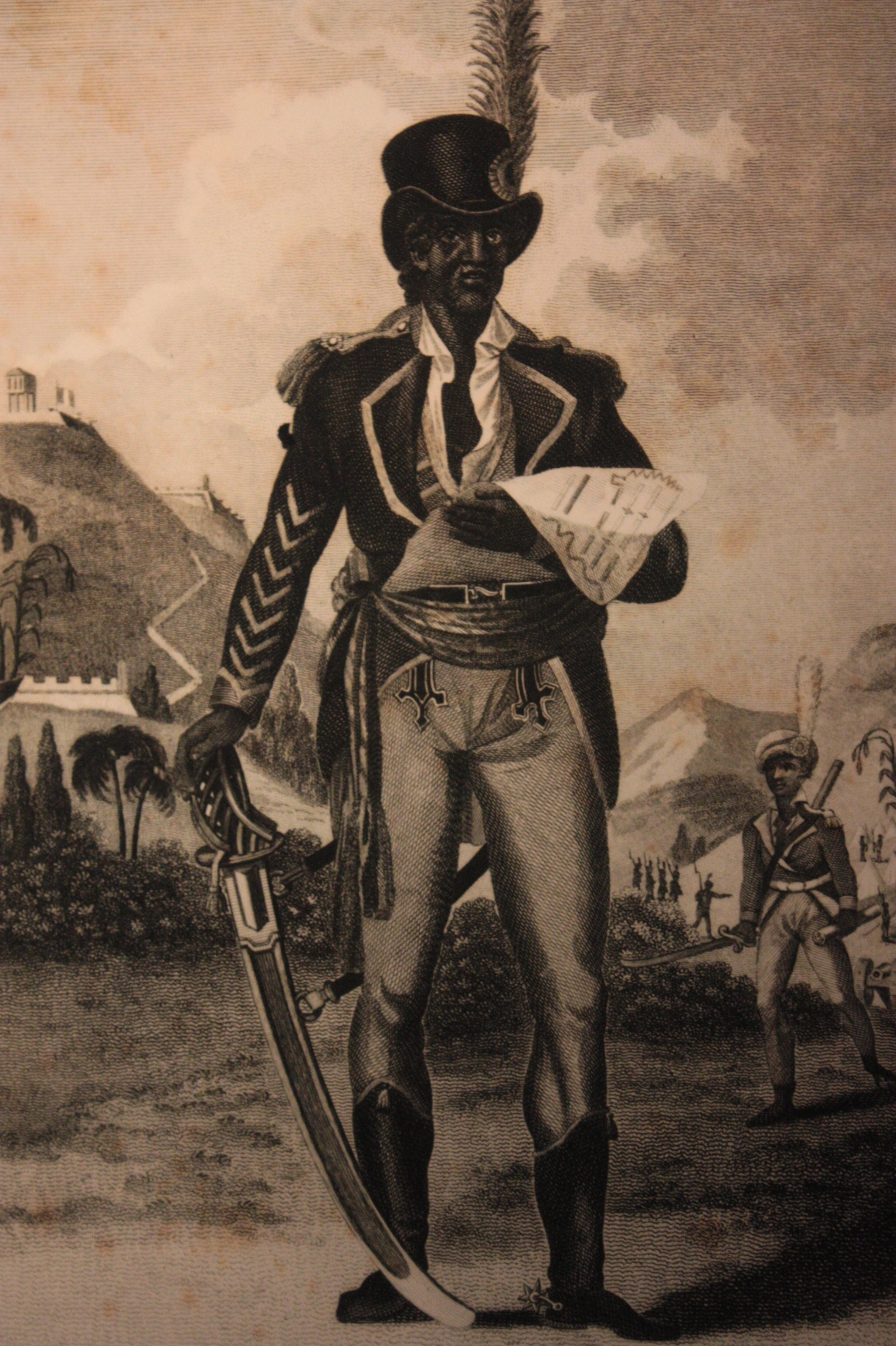 19th century engraving of L'Ouverture